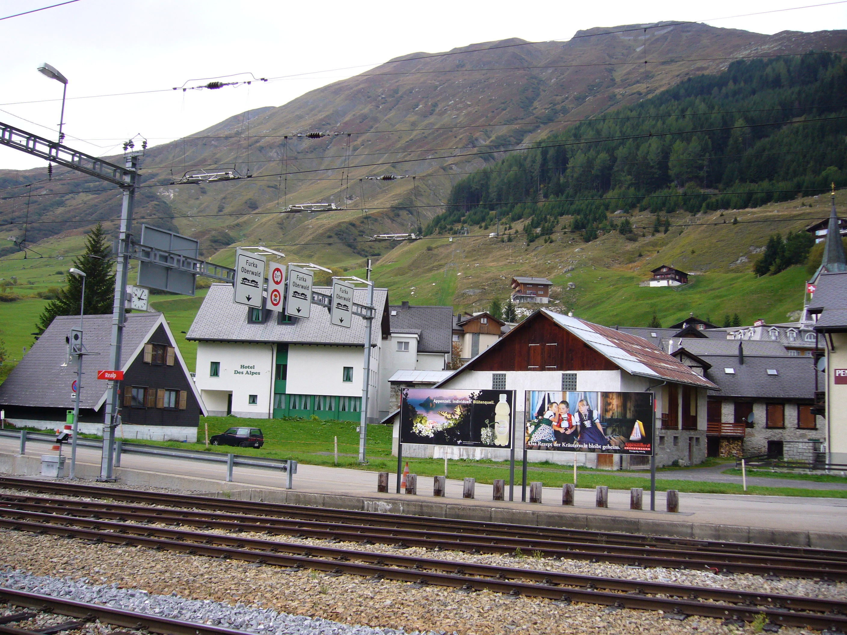 At the train station of the village of Realp, canton of Uri, Switzerland. Picture taken by Peter Berger, October 1, 2006.